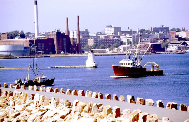 New Bedford, Massachusetts - view from harbor Obtained from